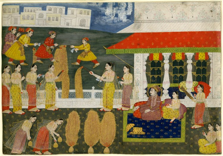 Gouache painting on paper. A firework display for Muḥammad Sháh, portrayed seated and leaning against a bolster.